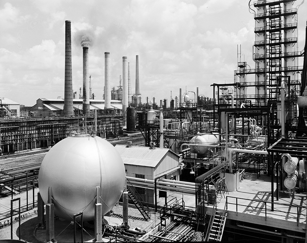 Title: Gulf Oil Corp., Alkylation Area Creator: Robert Yarnall Richie Date: July 15, 1956 Place: Port Arthur, Texas Part Of: Robert Yarnall Richie Photograph Collection Physical Description: 1 negative: film, black and white; 10.3 x 12.8 cm. File: ag1982_0234_4375_095_gulfoil_sm_opt.jpg Rights: Please cite DeGolyer Library, Southern Methodist University when using this file. A high-resolution version of this file may be obtained for a fee. For details see the web page. For other information, . For more information, View the Robert Yarnall Richie Photograph Collection